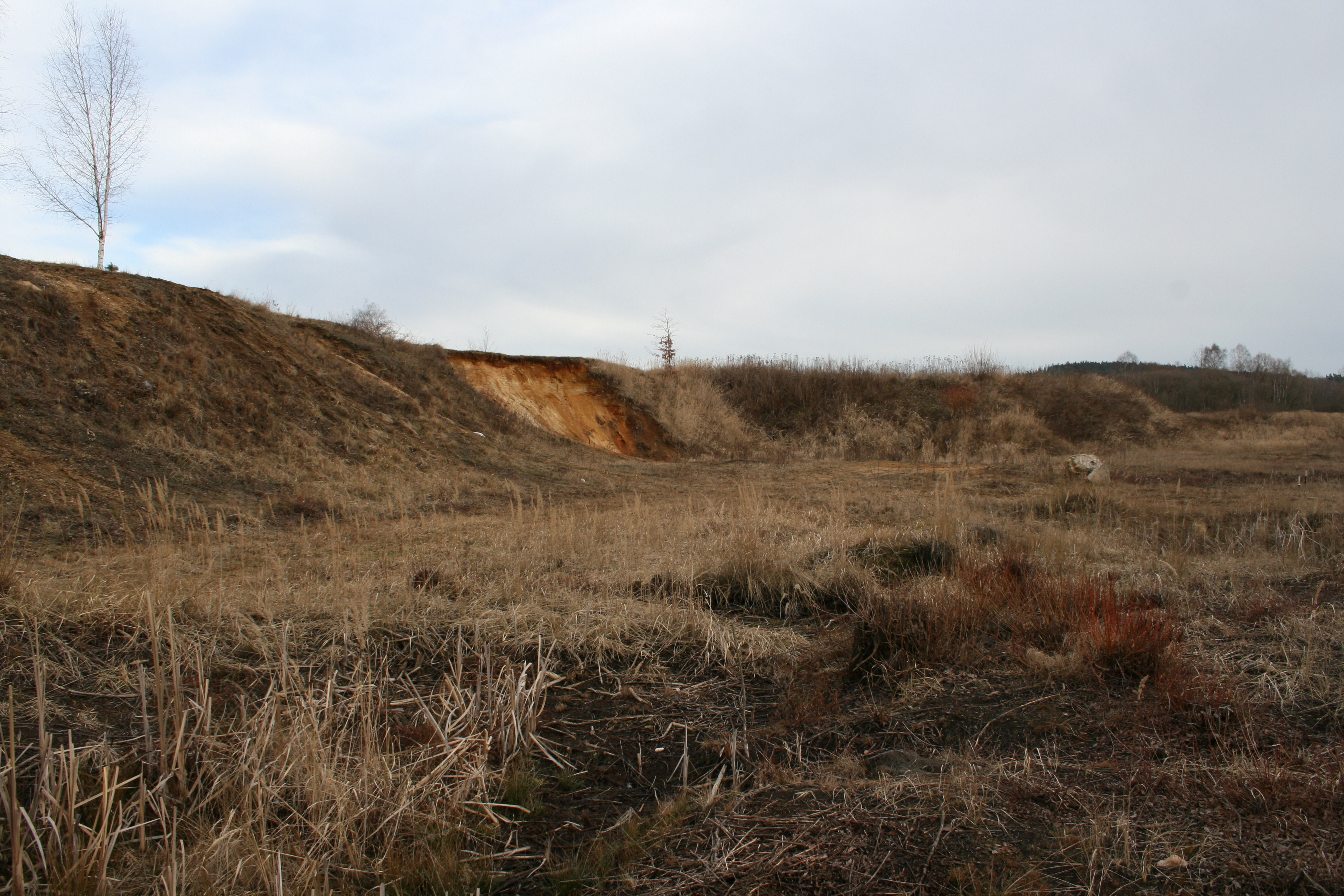 Natural reservation Pískovna na cvičišti near to Jindřichův Hradec, Jindřichův Hradec District, Czech Republic.